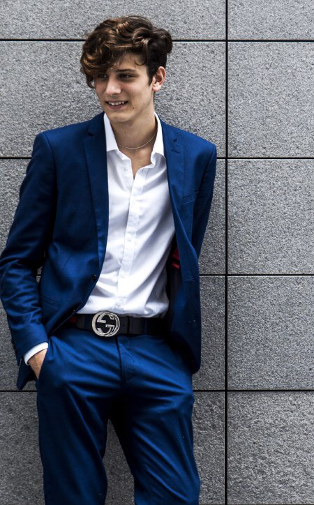 the italian actor emanuele succa